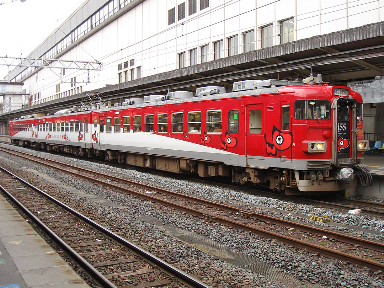 A JR East 455 series 3-car EMU at Koriyama Station in Banetsu West Line livery